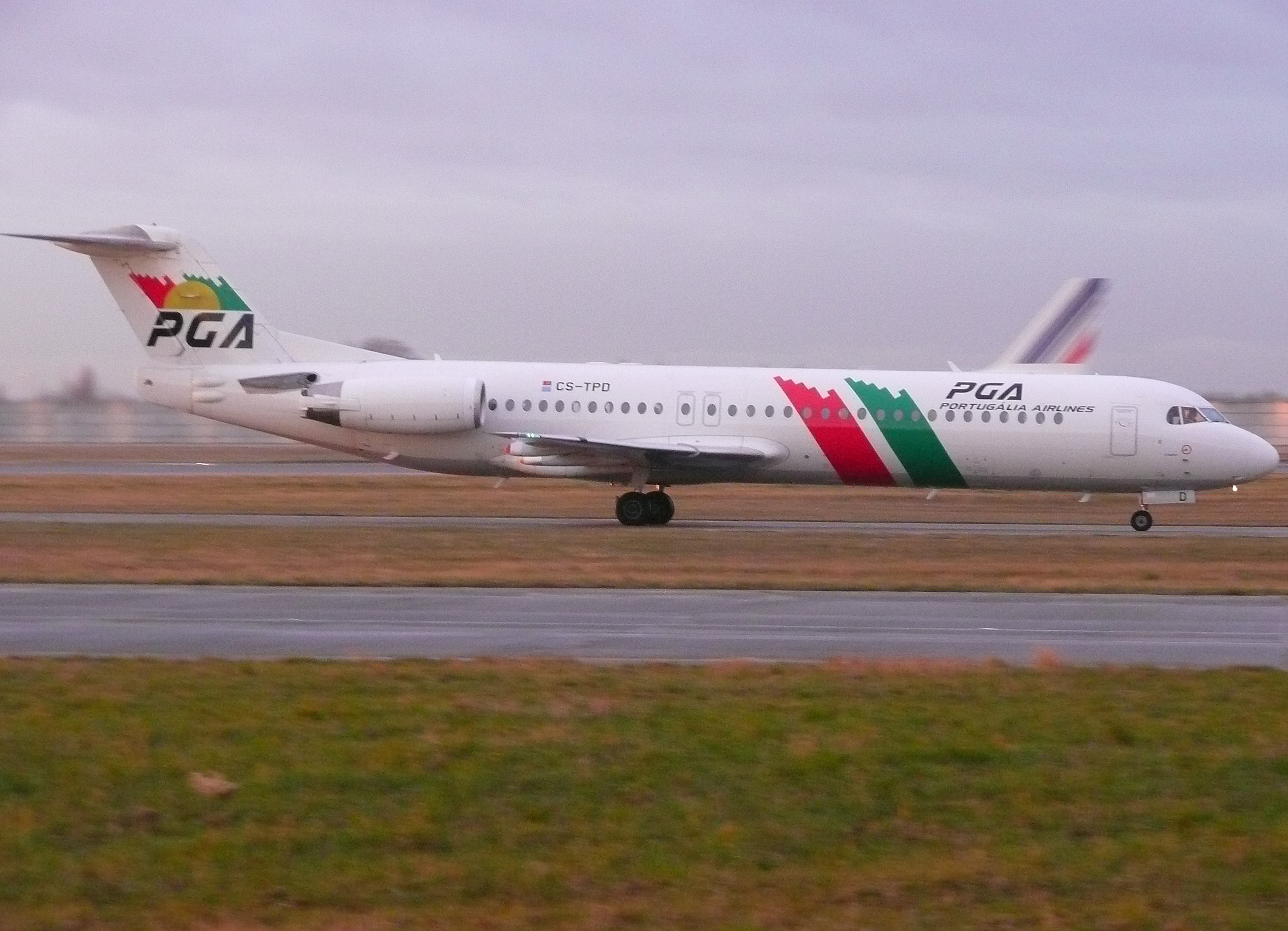 CS-TPD F100 PGA heading for a 09R departure.